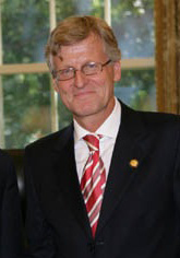 President George W. Bush meets with Ambassador Jonas Hafström of the Kingdom of Sweden, during the credentials ceremony for newly appointed ambassadors Tuesday, Sept. 18, 2007, in the Oval Office.